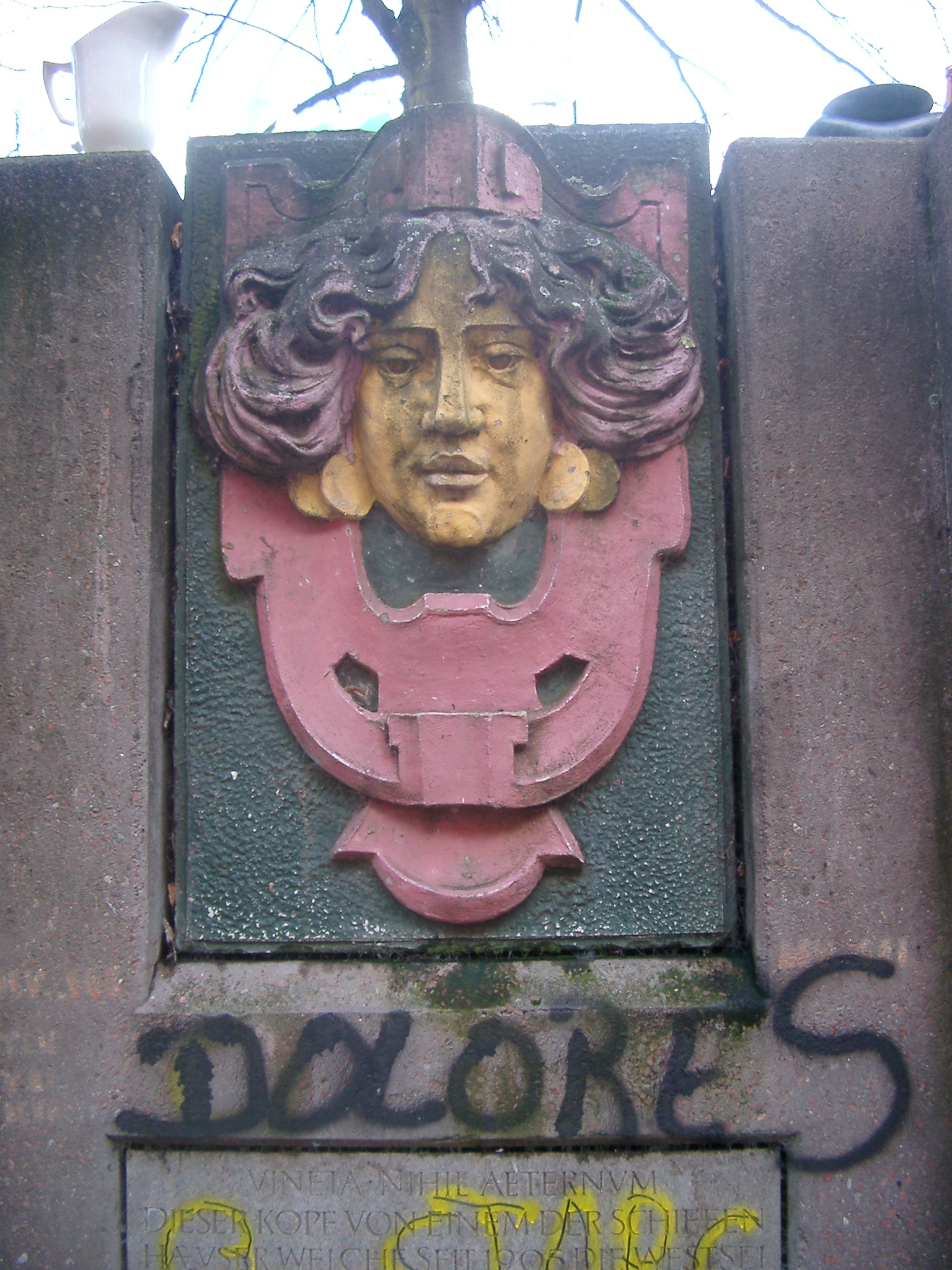 Kiel, Vineta place. Inscription: Vineta nihil aeternum. This head originally was part of a building decoration on the "art nouveau" buildings on the west side of Vineta square (Elisabethstraße 62-70), the so-called "schiefe Häuser" ("leaning buildings": the ground settled shortly after they had been constructed; they were demolished 1982). The head was subsequently integrated into the fountain on the square. Vineta square was so named in 1903 after the cruiser Vineta of the German Imperial Marine.